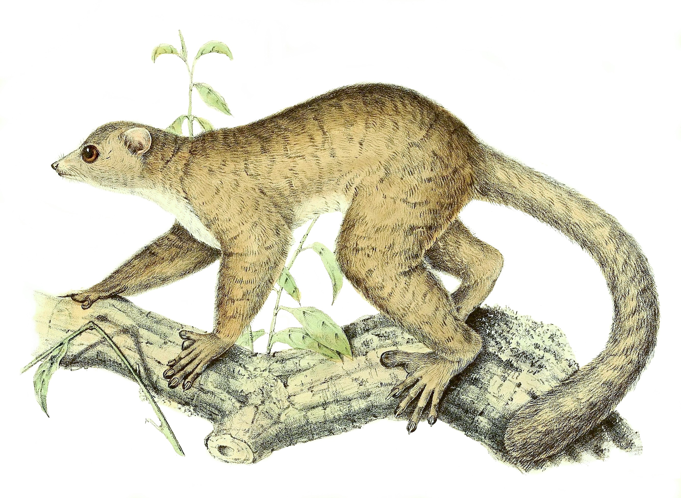 Lepilemur mustelinus (Weasel Sportive Lemur)